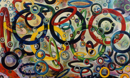 A symbolic visual artistic representation of the Olympics and the Olympic movement.